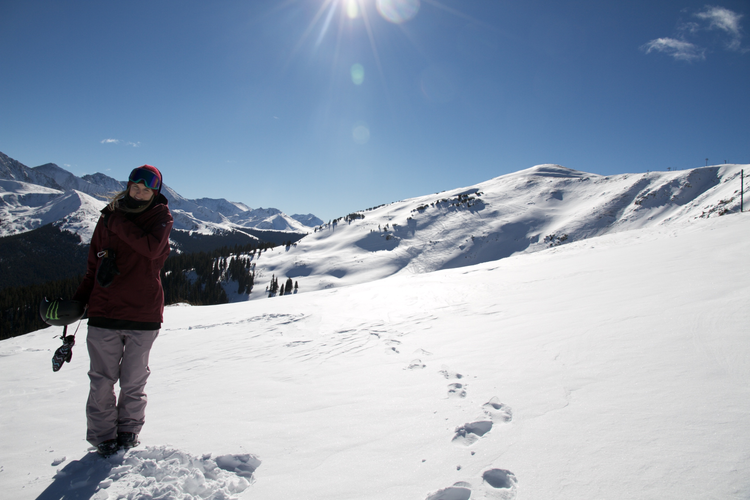 lifestyle at copper mountain